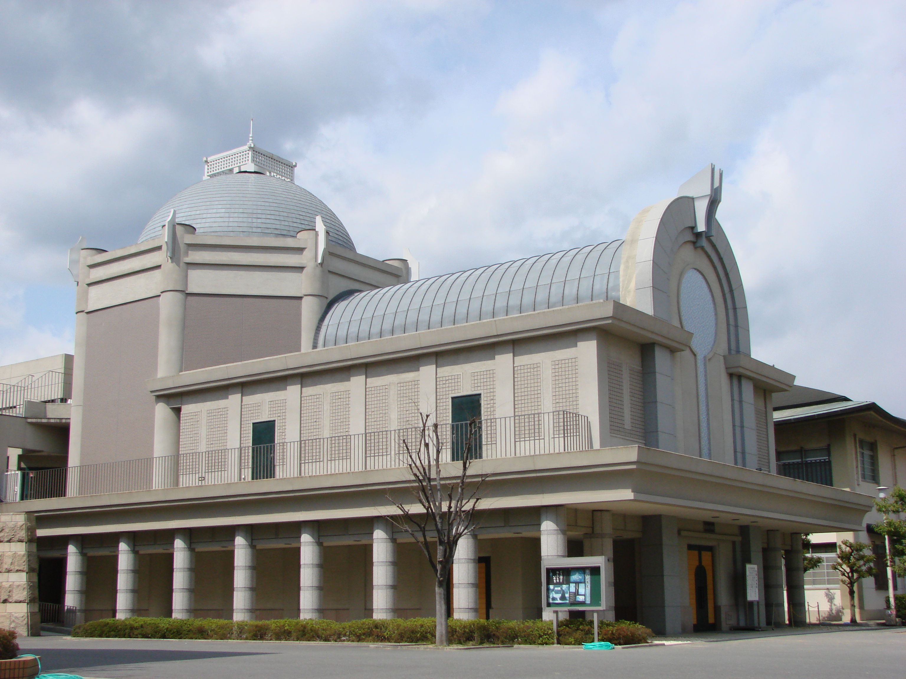 Kyodo (Prayer Hall), Hanazono University, Kyoto.